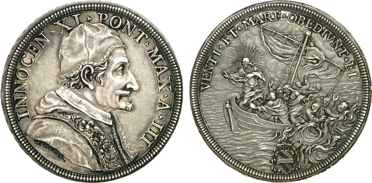 Piastre à l'effigie du Pape Innocent XI (1678-1679) Description avers : Buste habillé d’Innocent XI à droite, avec un bonnet ; sur la tranche du buste HAMERANO . Traduction avers : (Innocent XI, grand pontife, année 1) . Description revers : Le Christ, et les apôtres sur un bateau, calmant les flots ; au-dessous un écu aux armes de Corsini sous un chapeau de cardinal . Traduction revers : (Saint Mathieu, apôtre) .